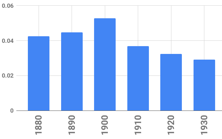 Chart of number of newspapers in Oregon as a percentage of population, 1880 through 1930. Based on data in "Growth of Oregon Newspapers" chapter of Turnbull's (1939) History of Oregon Newspapers".